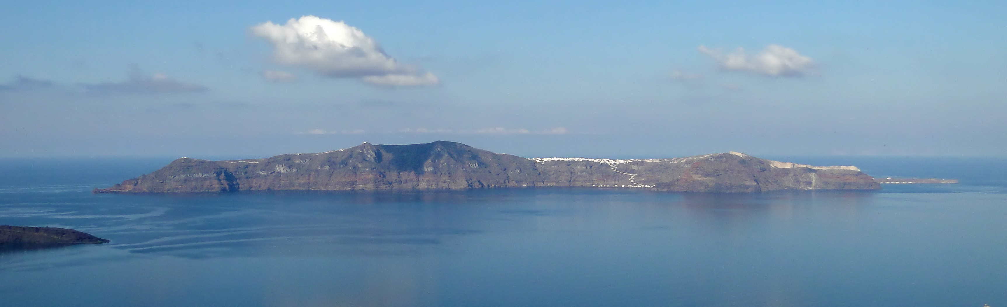 Therasia island, located in the island group of Santorini, Greece